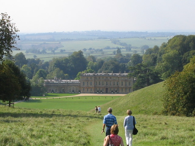 Dyrham Park.